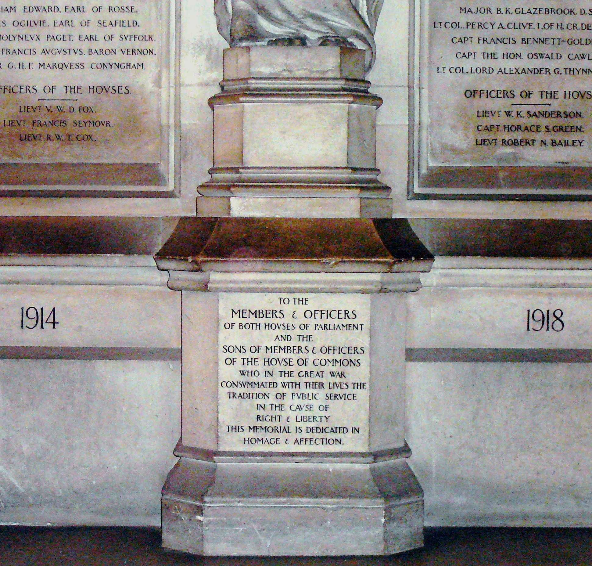 Great War Memorial at the St Stephen's Porch south end of Westminster Hall, House of Commons, London, forming the centre piece of eight panels of names of Members of Parliament and their sons killed in the Great War 1914-1918.